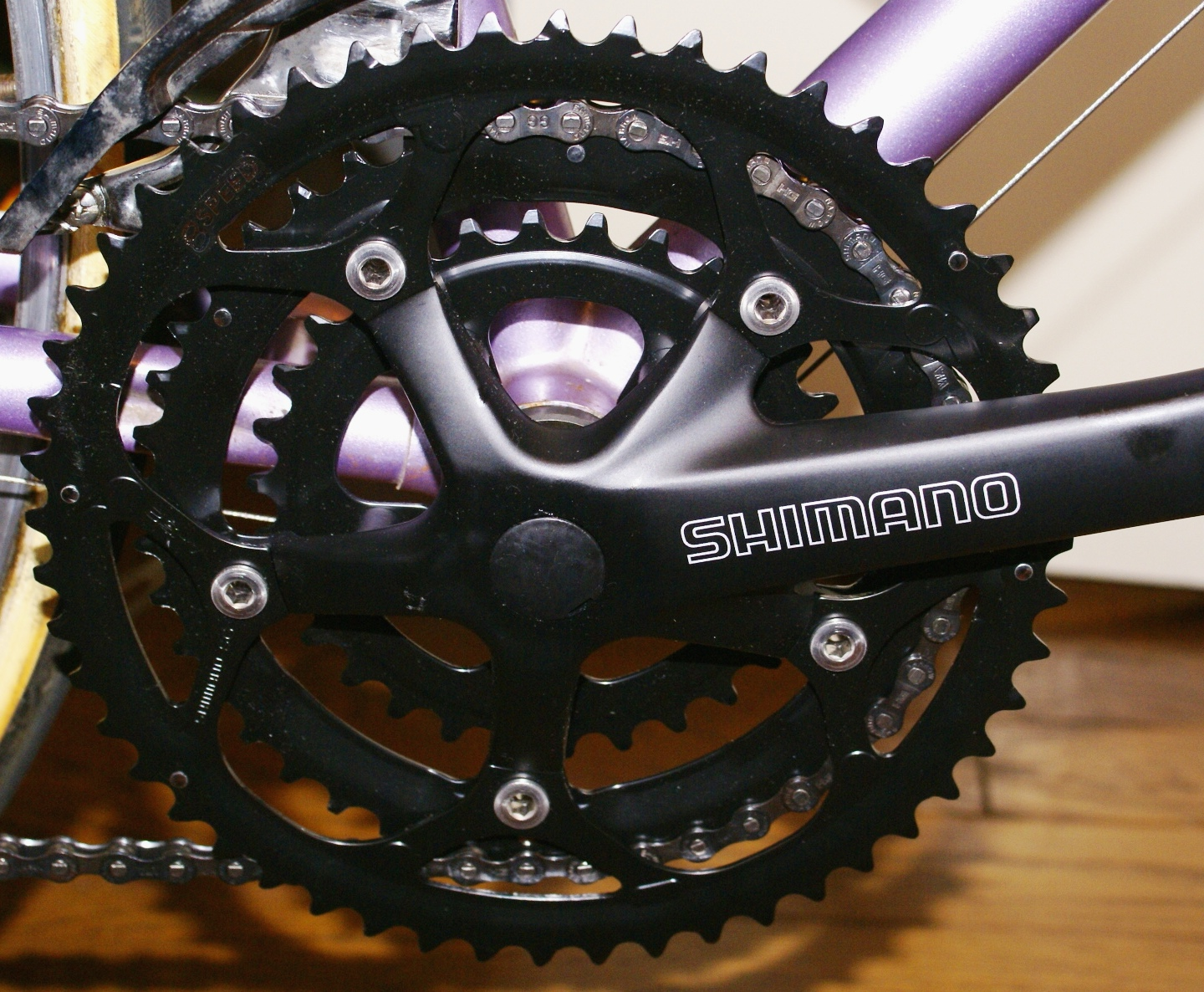 Shimano FC-2203 crankset